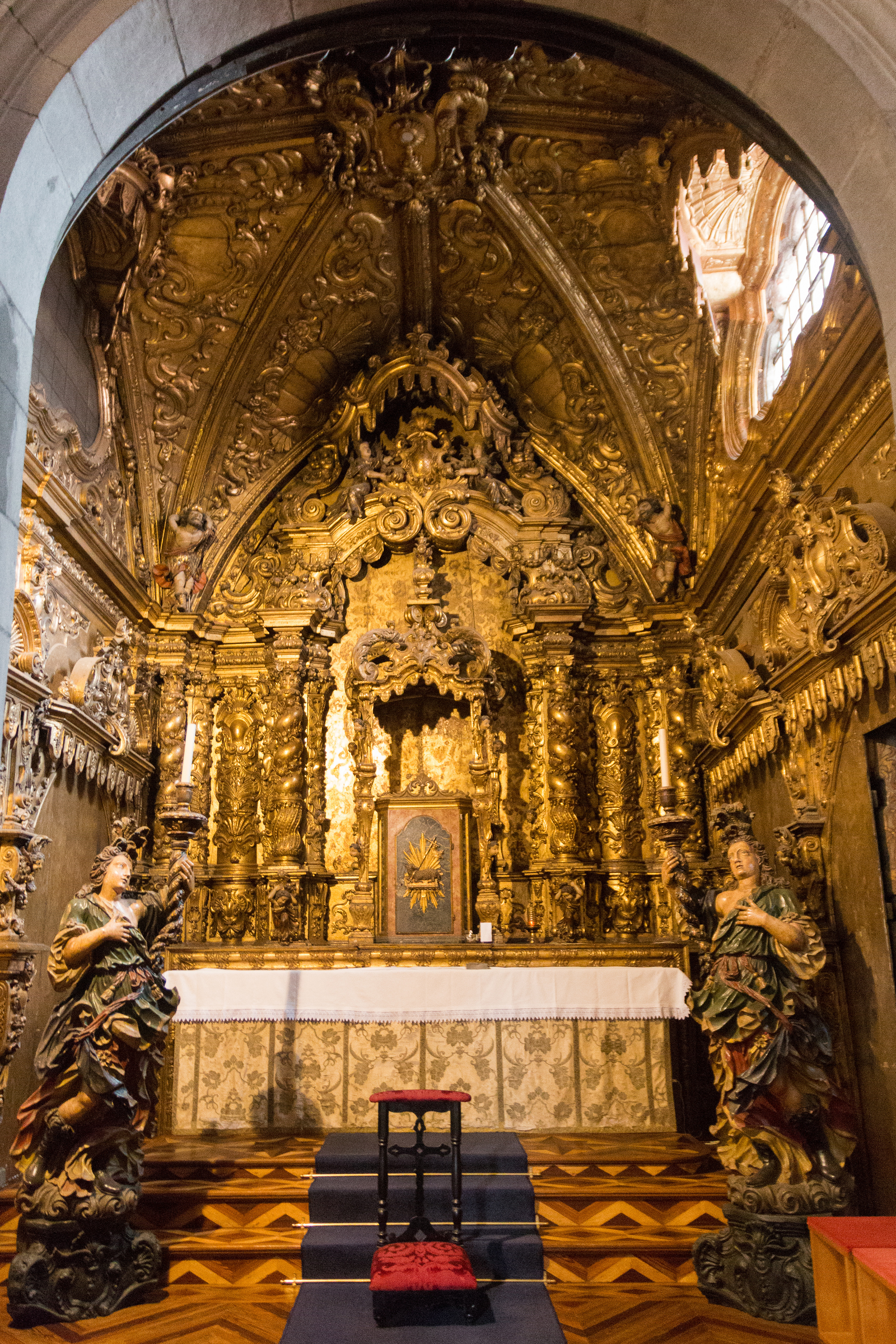 Chapel of the Sanctissim, Chapel revival of the Rochas, covered more later with carved golden wood on johanin style.